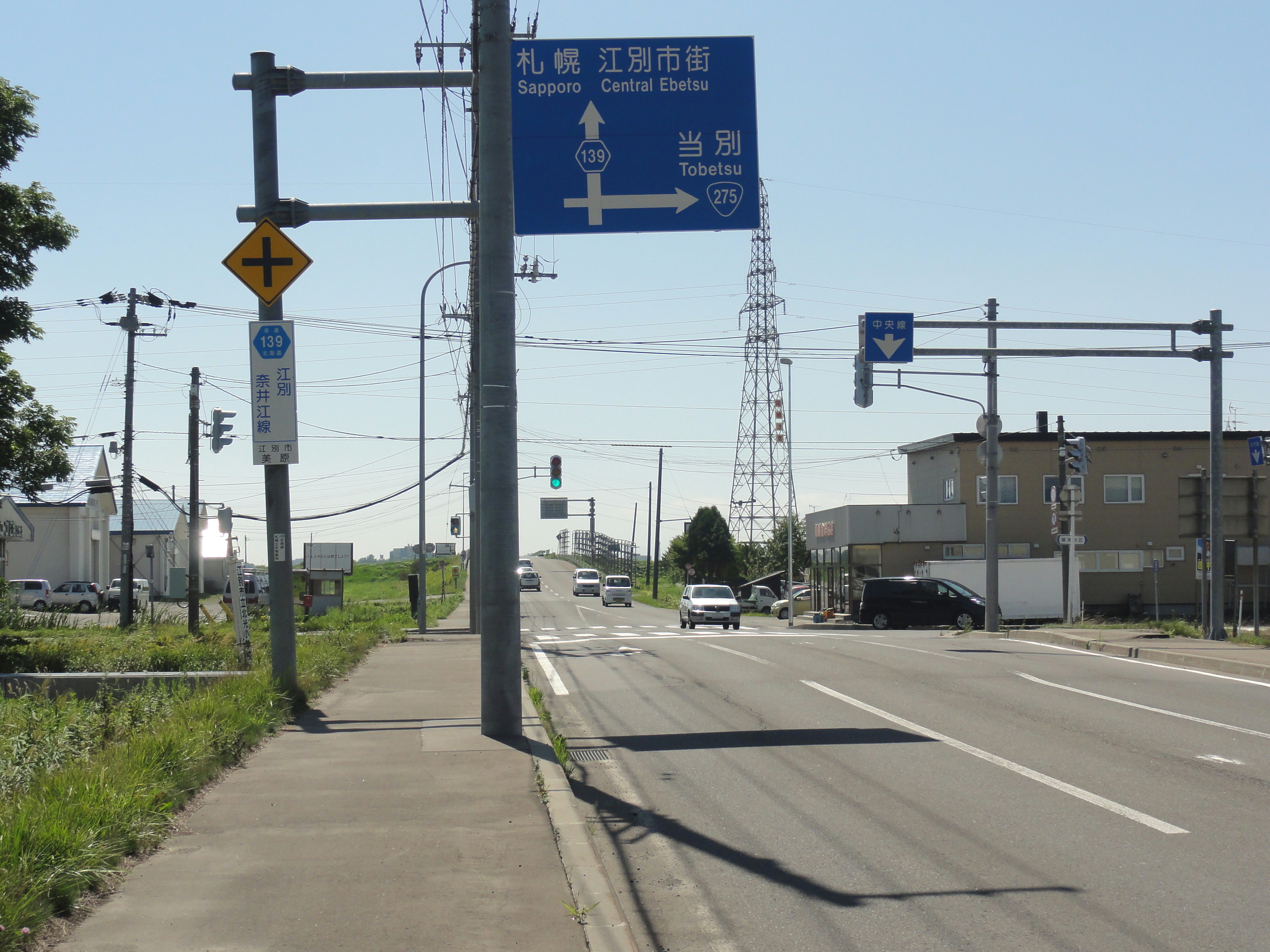 The Hokkaido Prefectural Road Route 139 in Ebetsu City